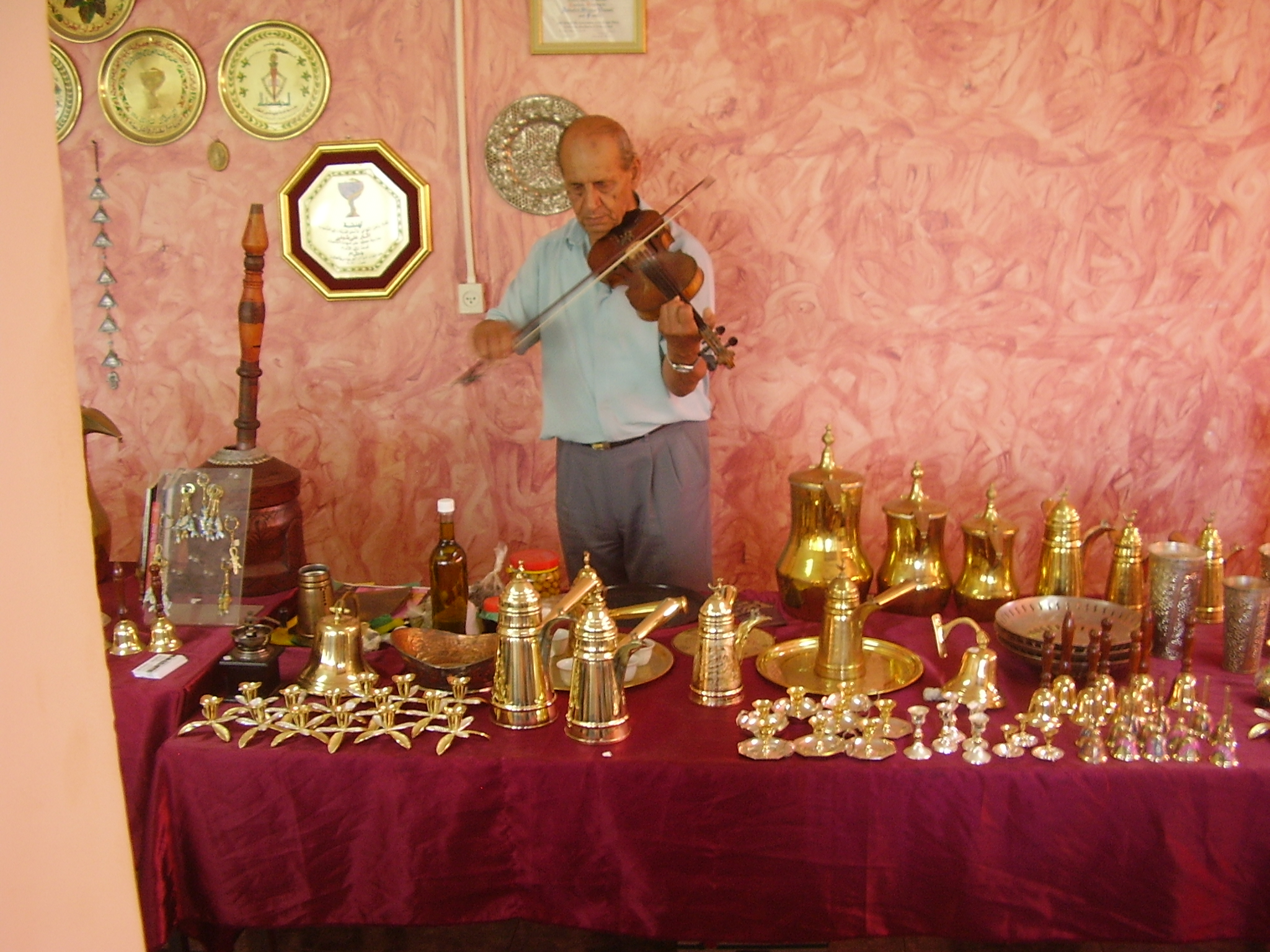 Abdalla Yusuf, copper craftsman from Ilabon, Israel